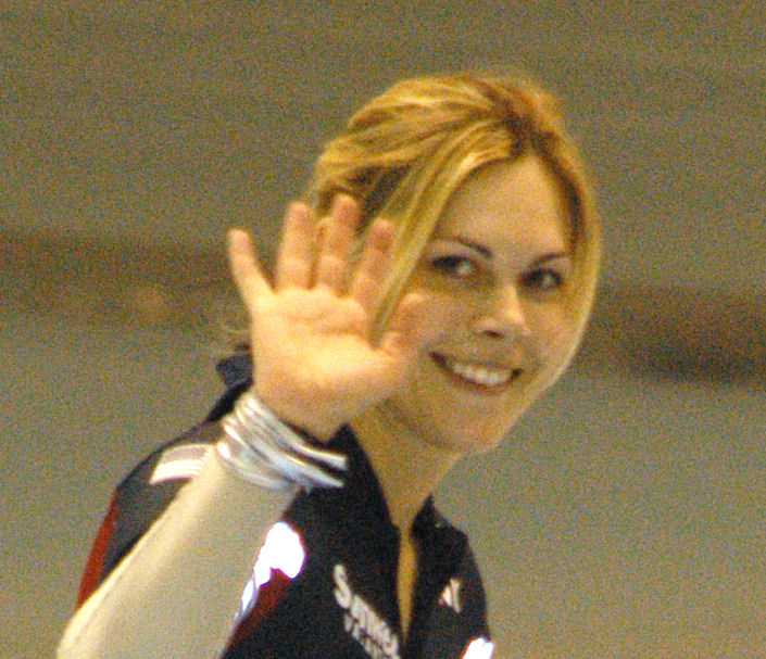 Elli Ochowicz (USA) at a world cup speedskating in Heerenveen, the Netherlands.